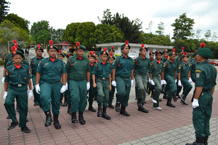 GAMBAR 1